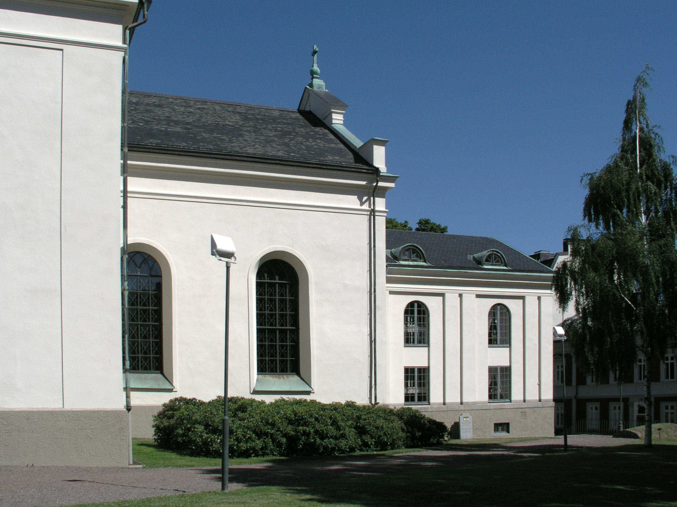 Karlstads domkyrka / Cathedral of Karlstad. Church wall.